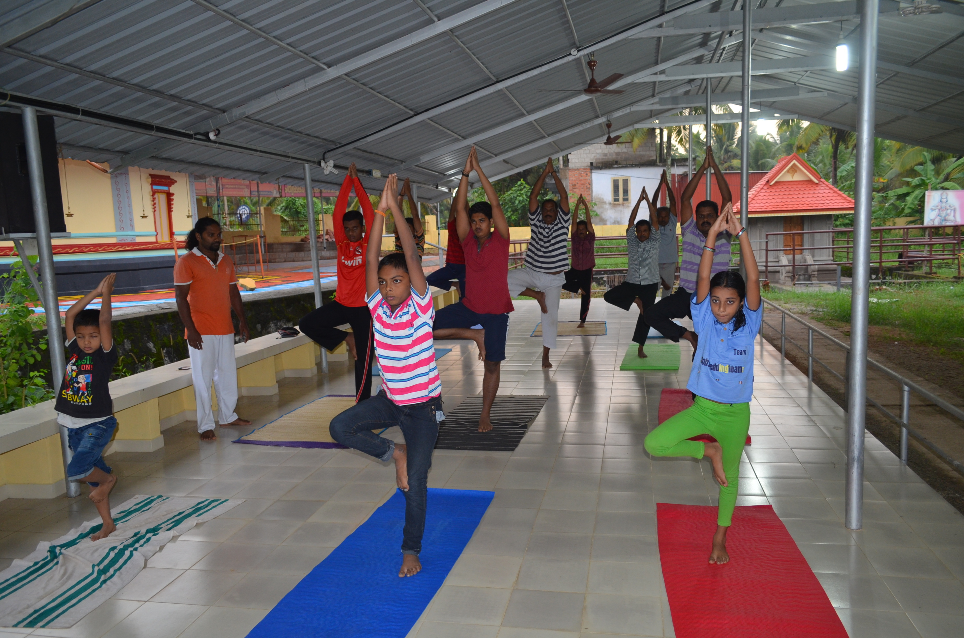 Yoga in Temple